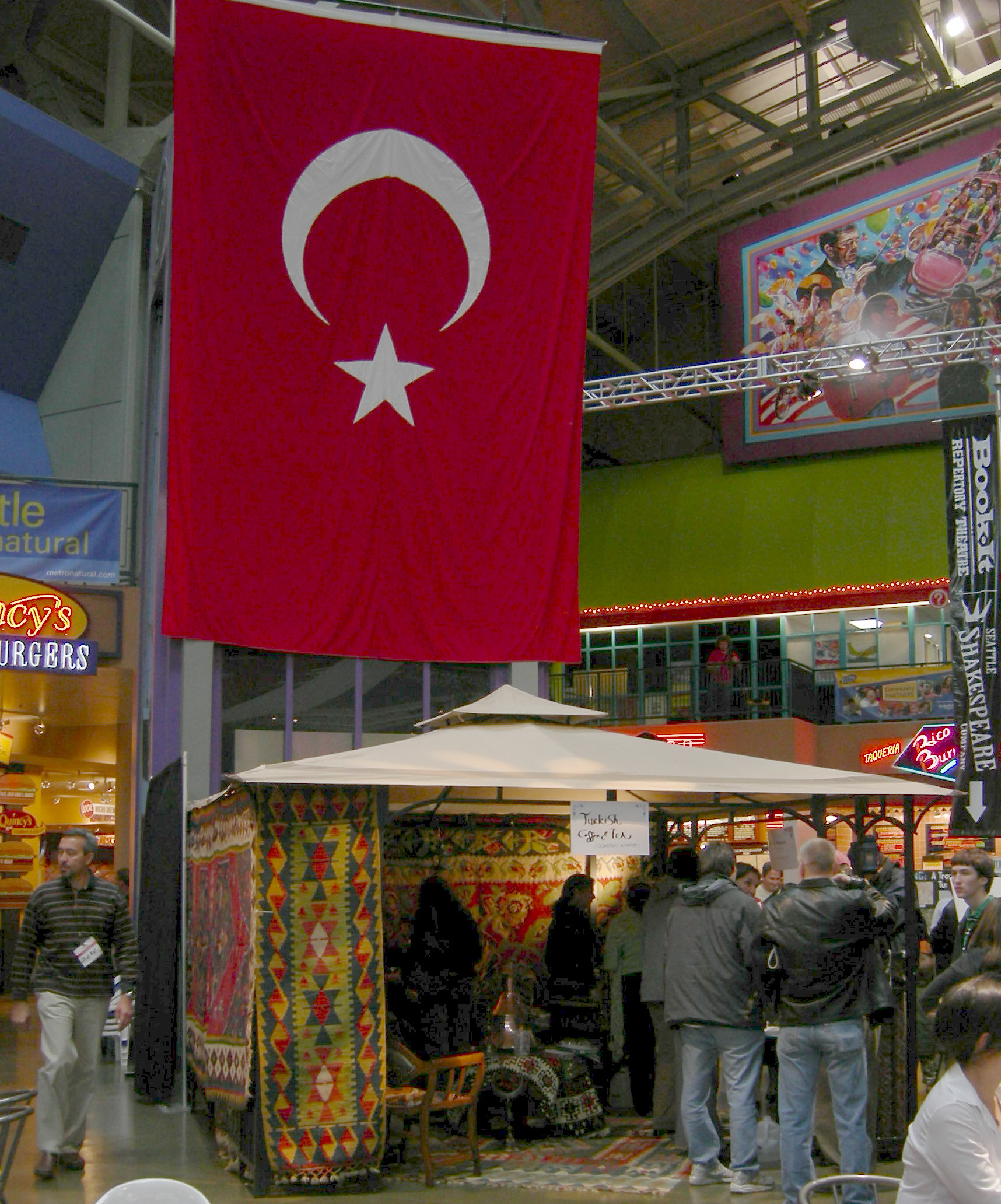 Temporary coffeehouse and large Turkish flag at Turkfest, Center House, Seattle Center, Seattle, Washington, USA.